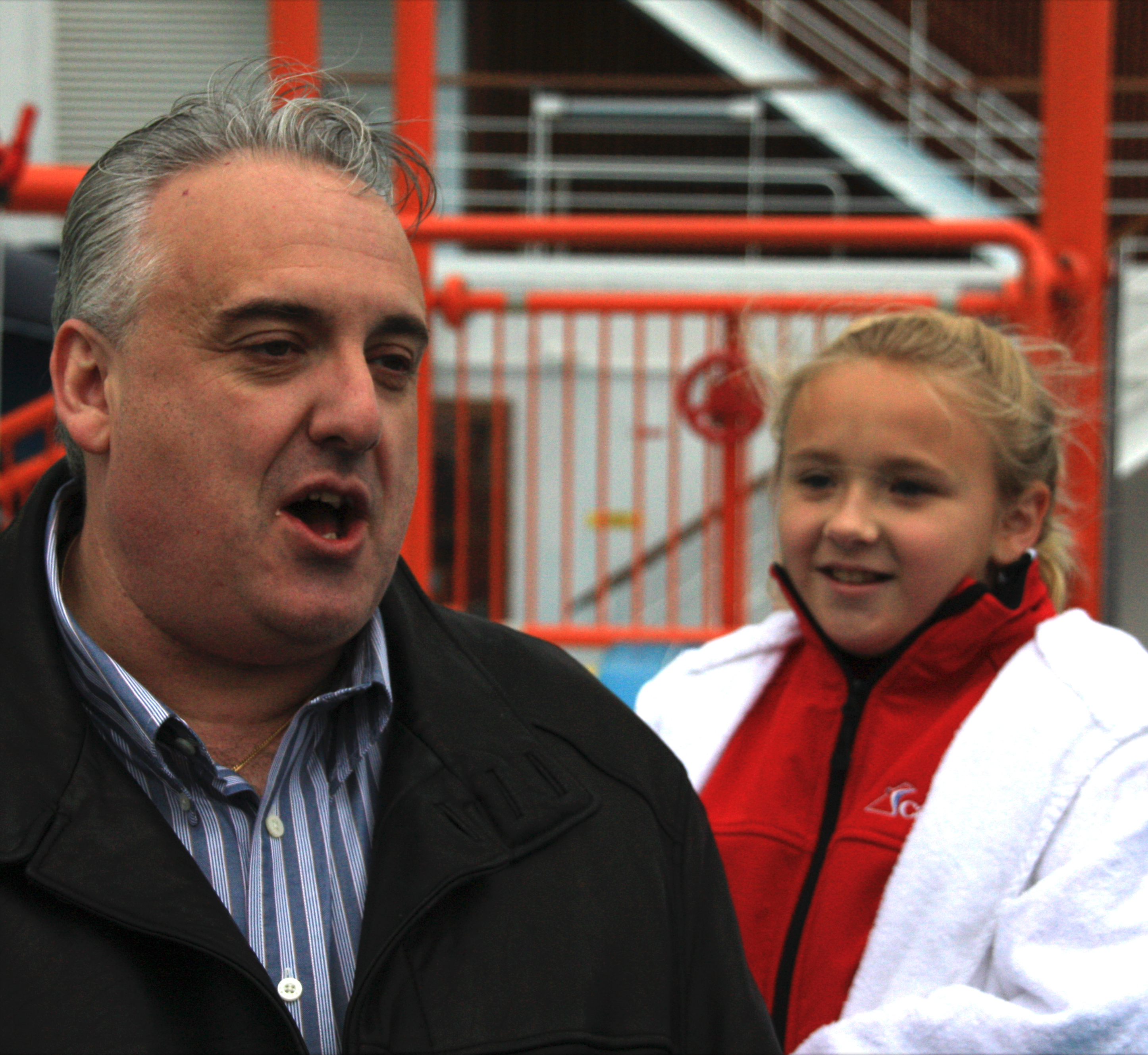 John Heald introduces Hailee Steberger as the nine-year-old prepares to christen the water slide on cruise ship Carnival Dream